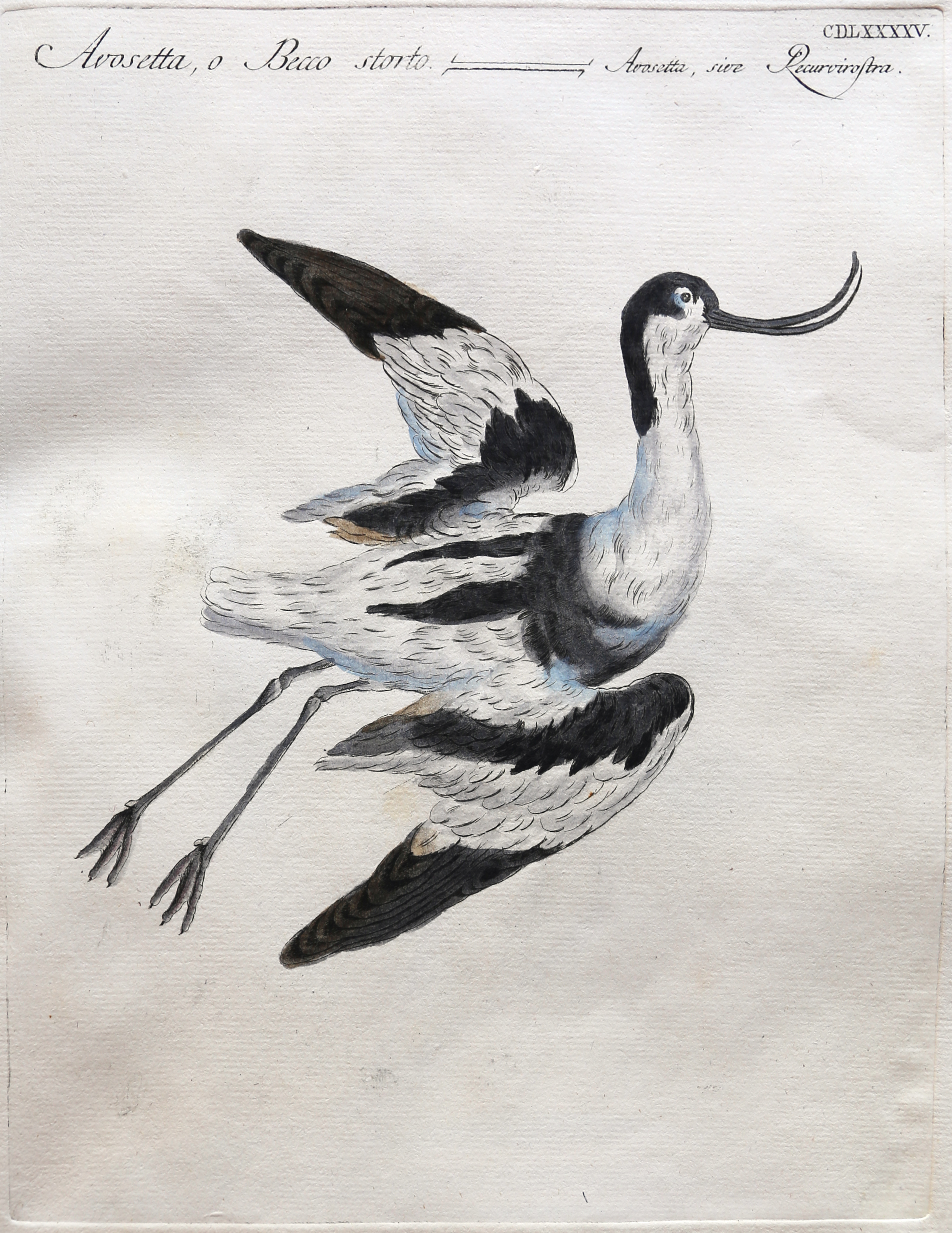 Avocet. Ornithologia methodice digesta (Crusca)